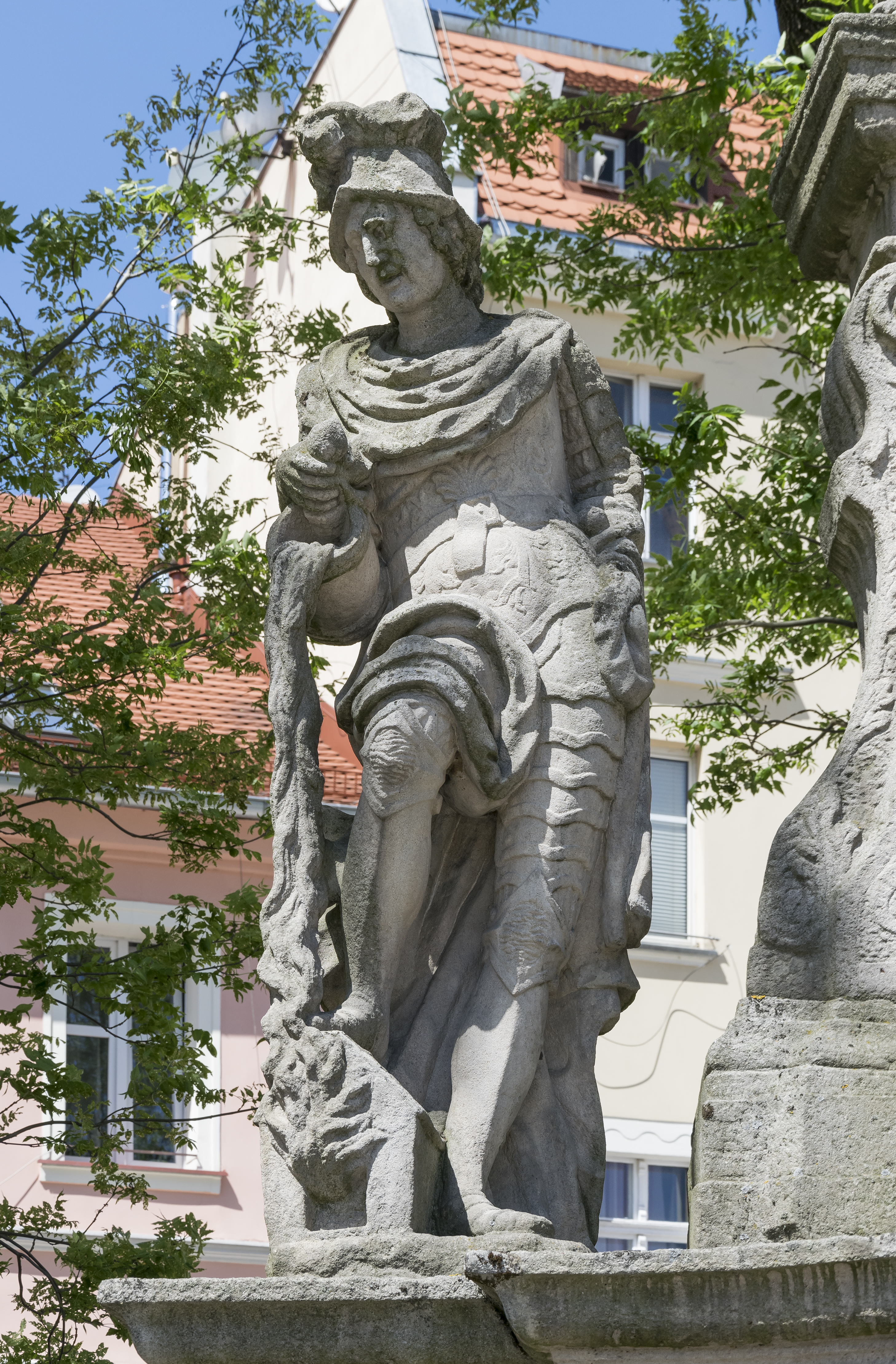 Marian column in Duszniki-Zdrój, Saint Florian